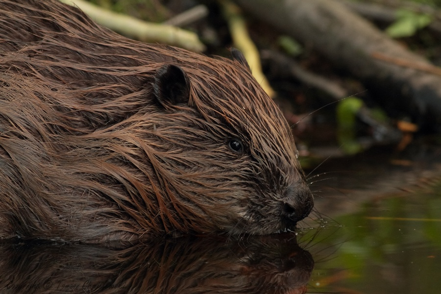 Eurasian beaver (Castor fiber vistulanus)